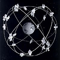 The orbiting constellation of GPS satellites.